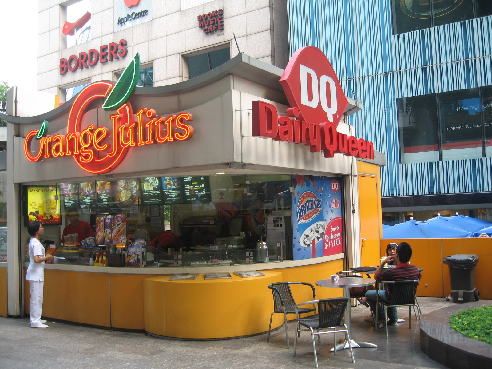 Orange Julius-Dairy Queen stall along Orchard Road.